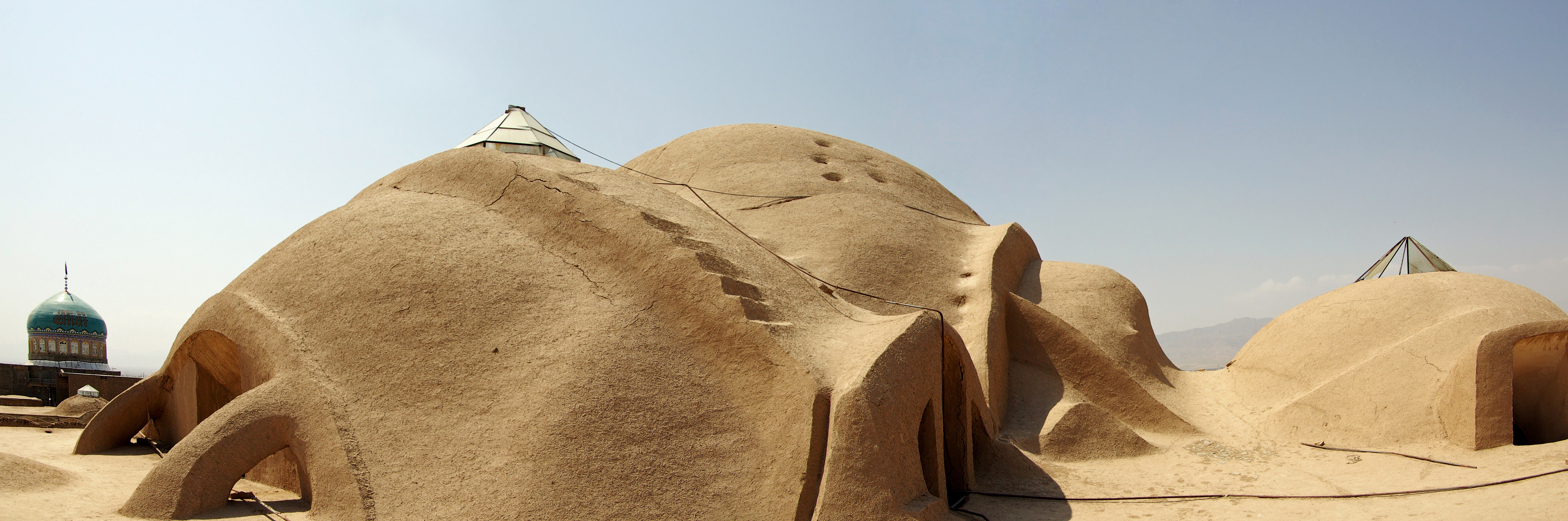 On the roof of Kashan bazaar. Under the bulges lies the Timcheh Amin al-Dowleh